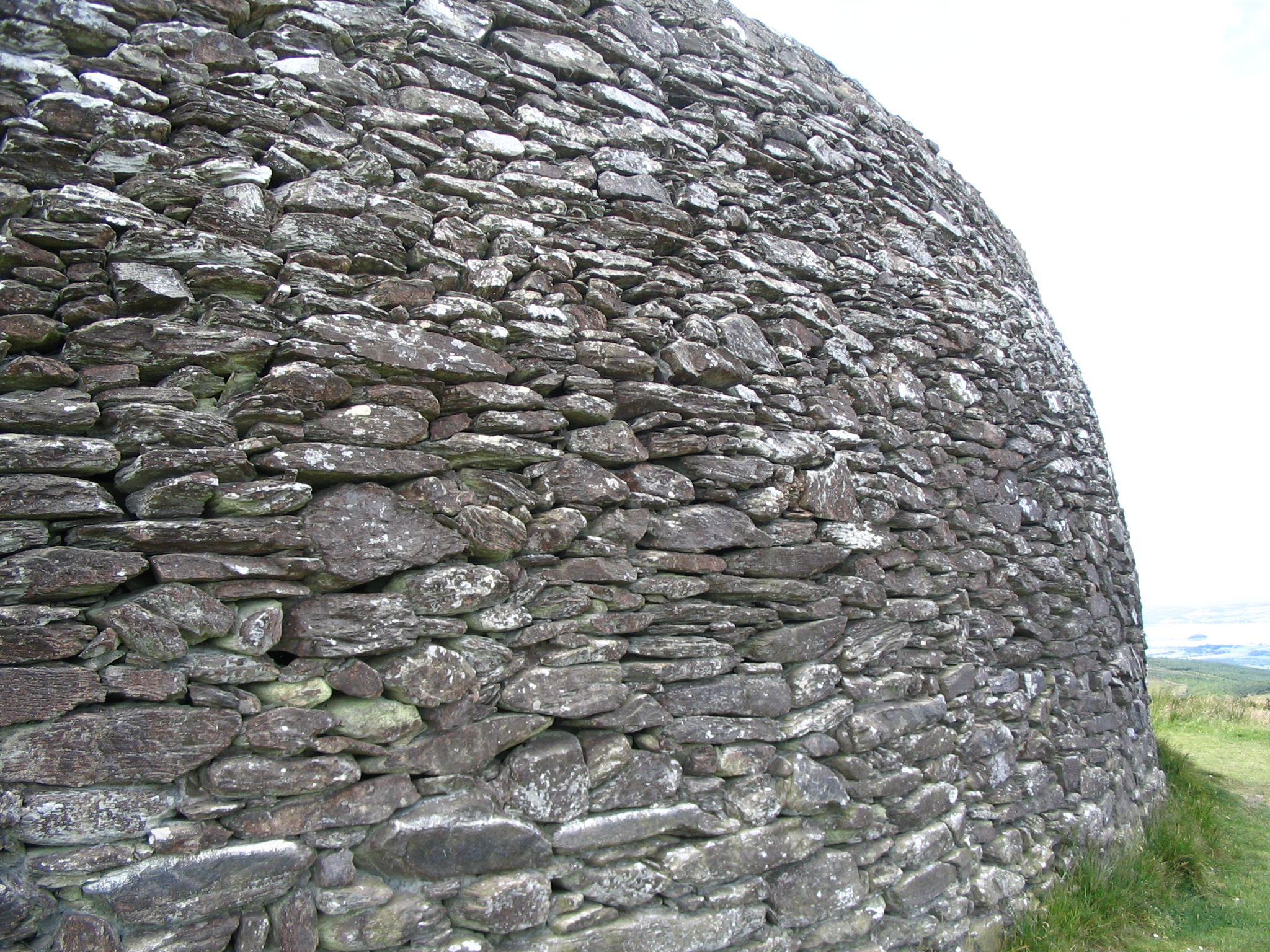 Grianan of Aileach - detail of the wall